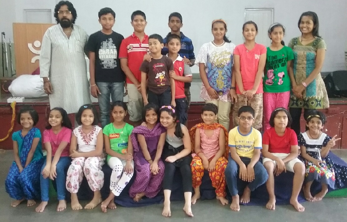 Ravindra Amonkar with children at Bal Bhavan